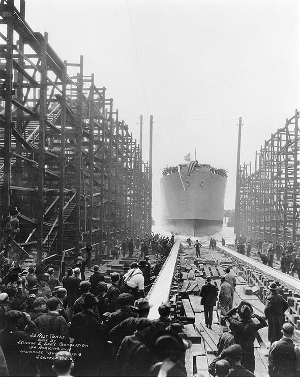 West Cohas (American Freighter, 1918) Enters the water during her launching at the Skinner & Eddy Corporation shipyard, Seattle, Washington, on 6 June 1918, after being on the building ways for 54 days. This ship was delivered by the builder on 29 June 1918 and placed in commission as USS West Cohas (ID # 3253). She was returned to the U.S. Shipping Board on 9 May 1919. The original print is in National Archives' Record Group 19-LCM. U.S. Naval Historical Center Photograph.